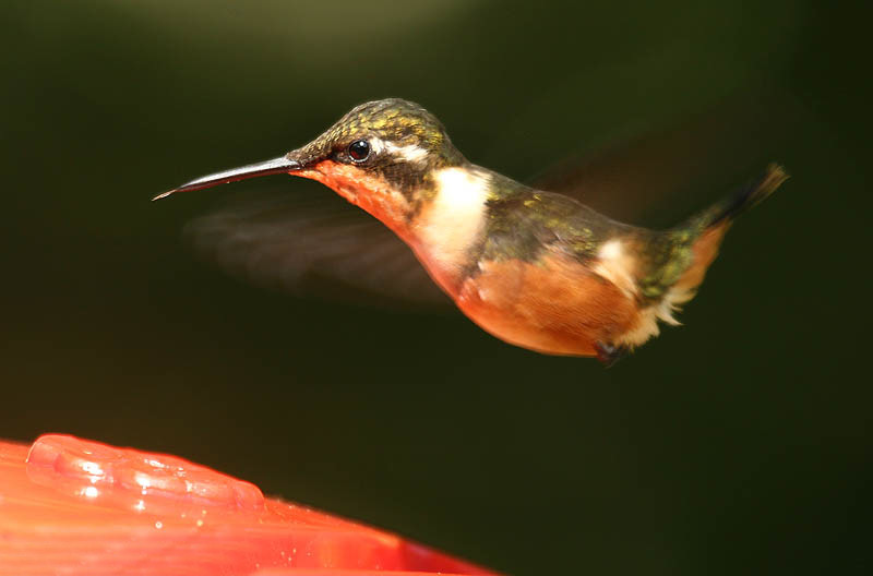 Purple-throated Woodstar (Calliphlox mitchellii). A female or juvenile at Tandayapa Bird Lodge, NW Ecuador 3/11/2007